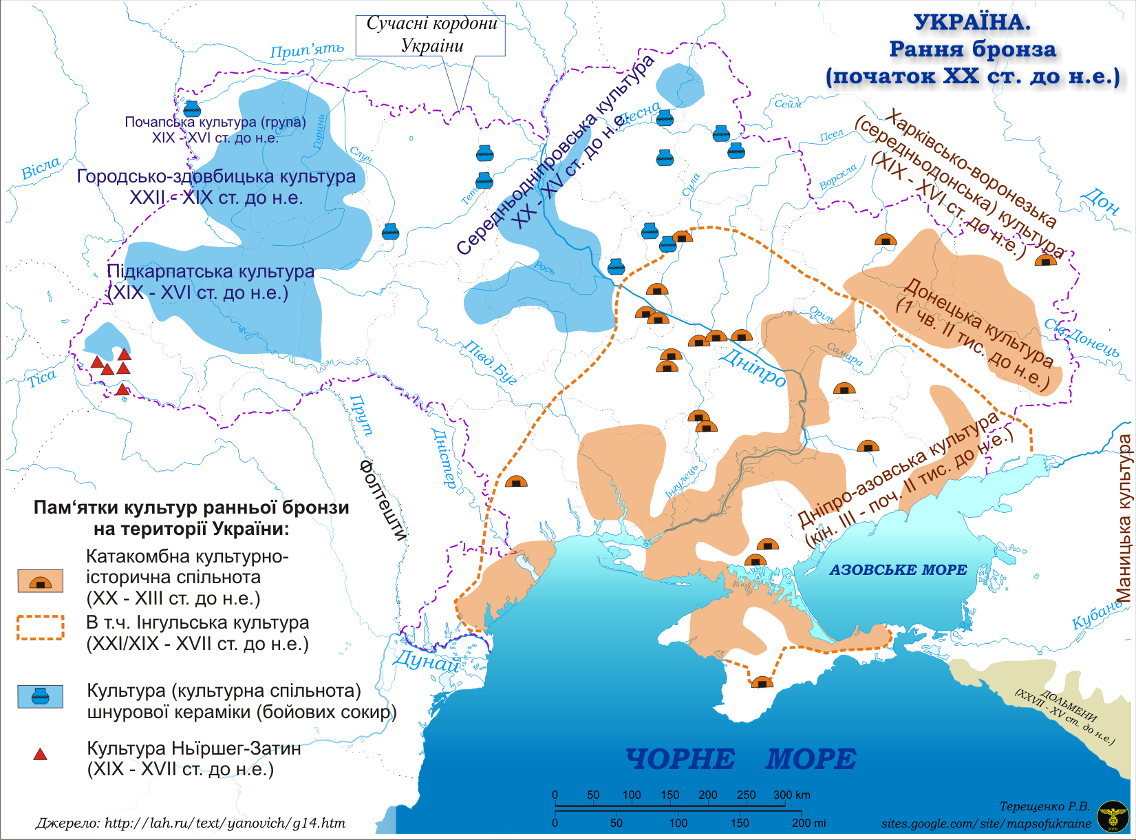 Bronze Age on the territory of Ukraine (the end of the third millennium BC.). catacomb culture and Corded Ware culture